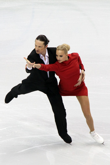 Oksana DOMNINA and Maxim SHABALIN at the Olympics 2010